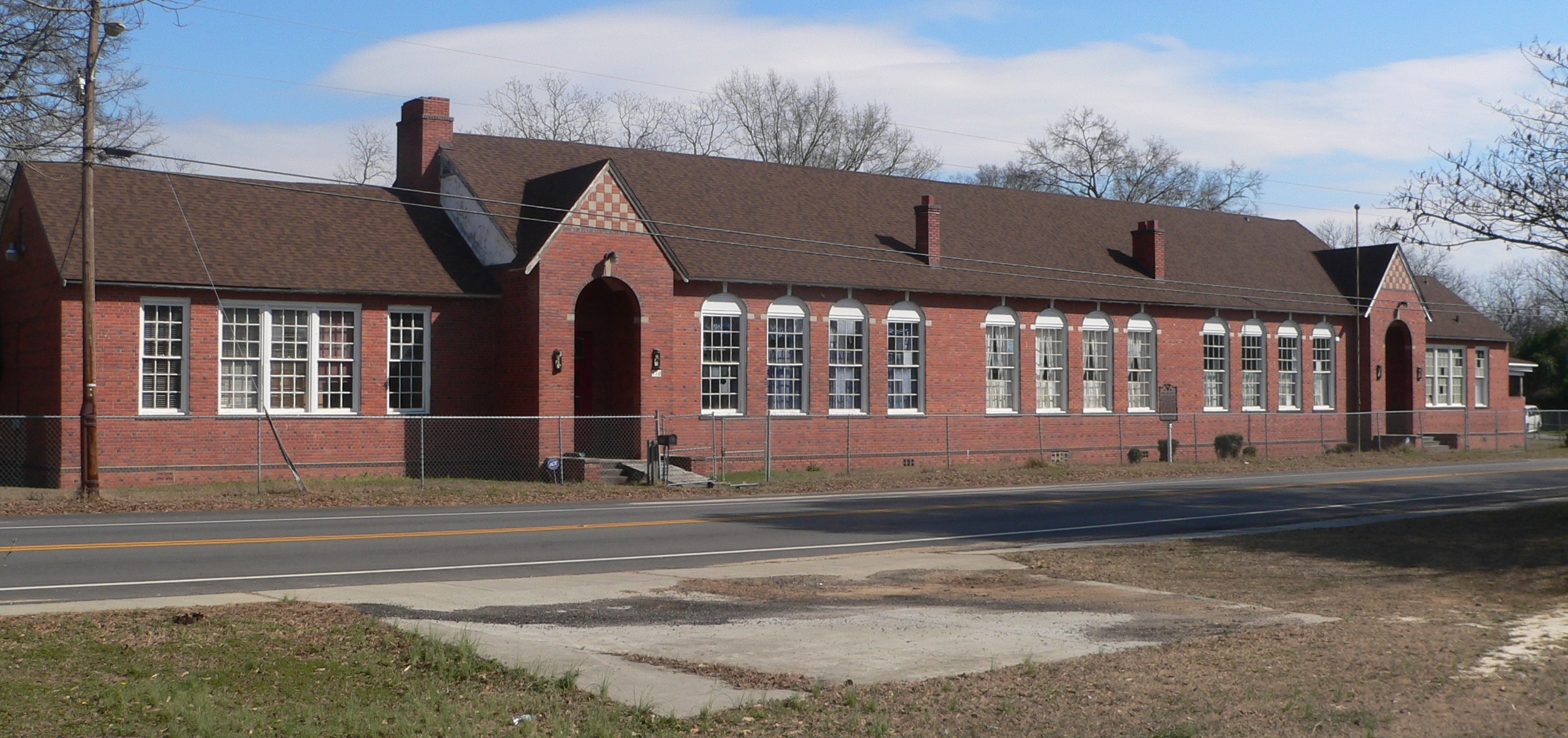 Dennis High School, located at 410 W. Cedar Lane in Bishopville, South Carolina. View is from the northwest, across Cedar Lane (which runs northwest-southeast).